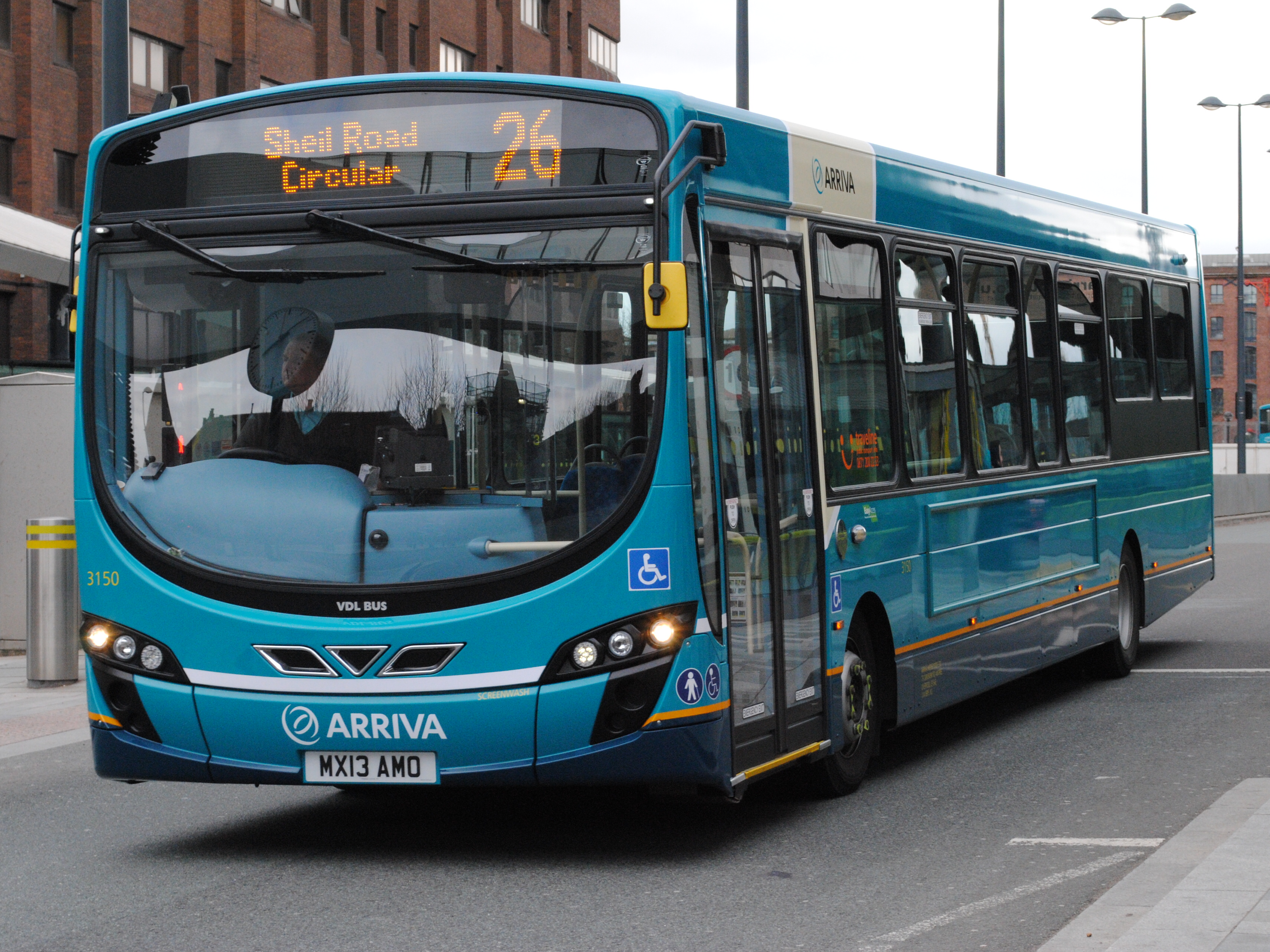 VDL SB200CS Wright Pulsar 2